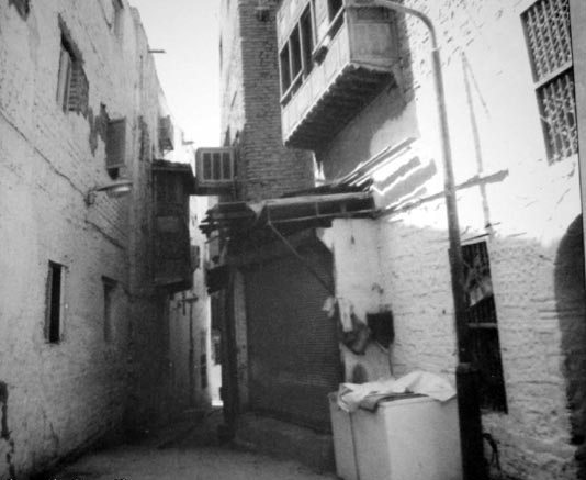 Lane in old Medina